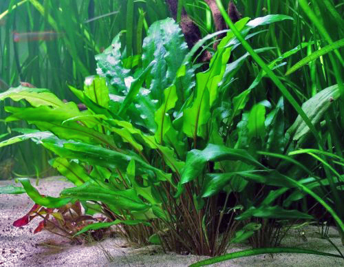 Cryptocoryne wendtii 'Green'